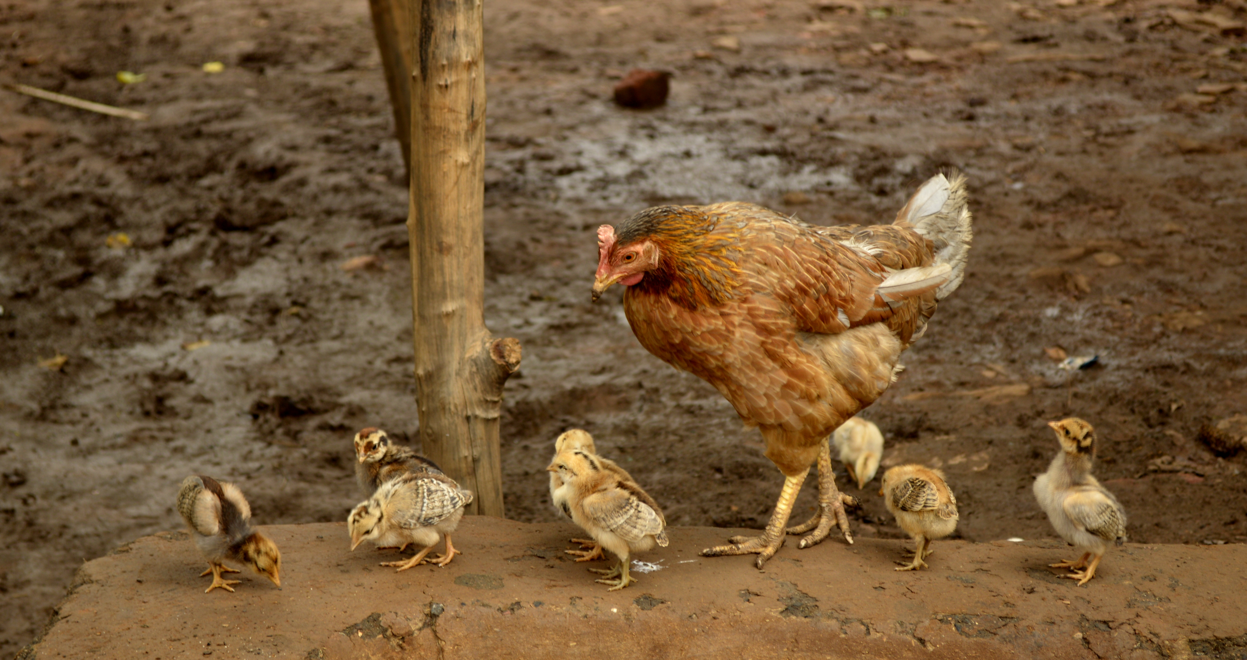 Hen with chicks, Raisen district, Madhya Pradesh, India.